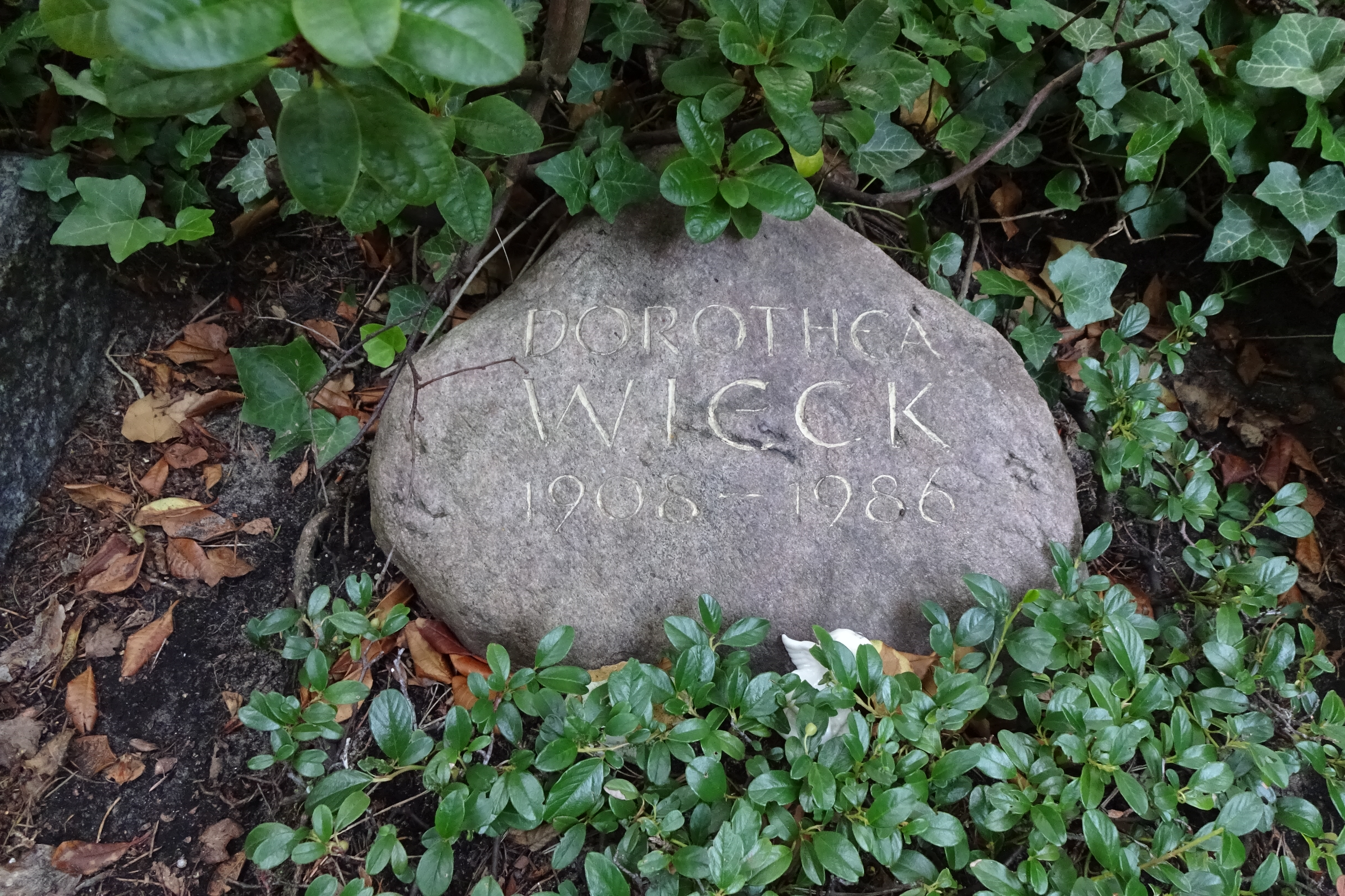 Grave of German actress Dorothea Wieck at Friedhof Heerstraße in Berlin-Westend